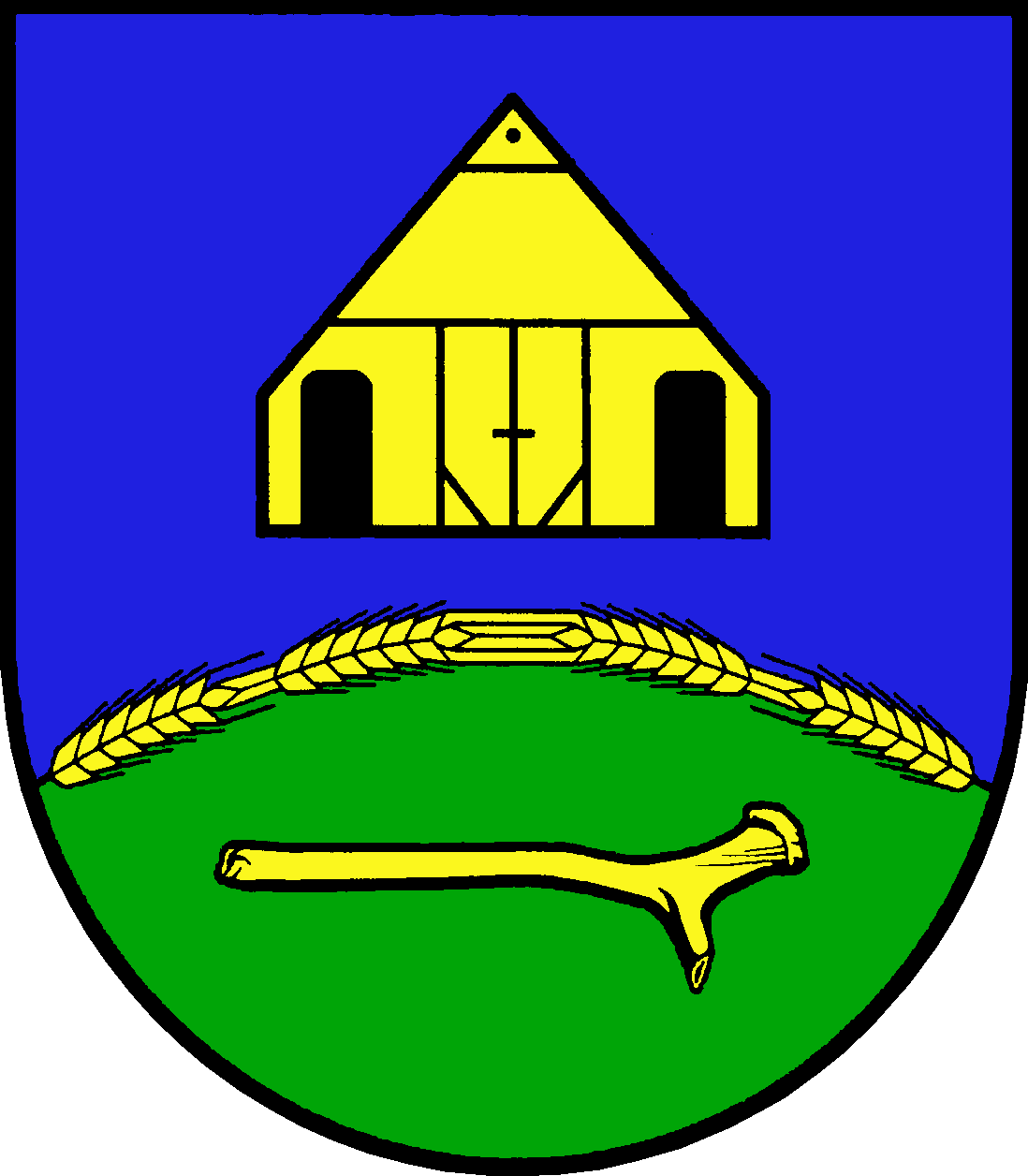 Coat of arms of the municipality Klappholz in Schleswig-Holstein, Germany.